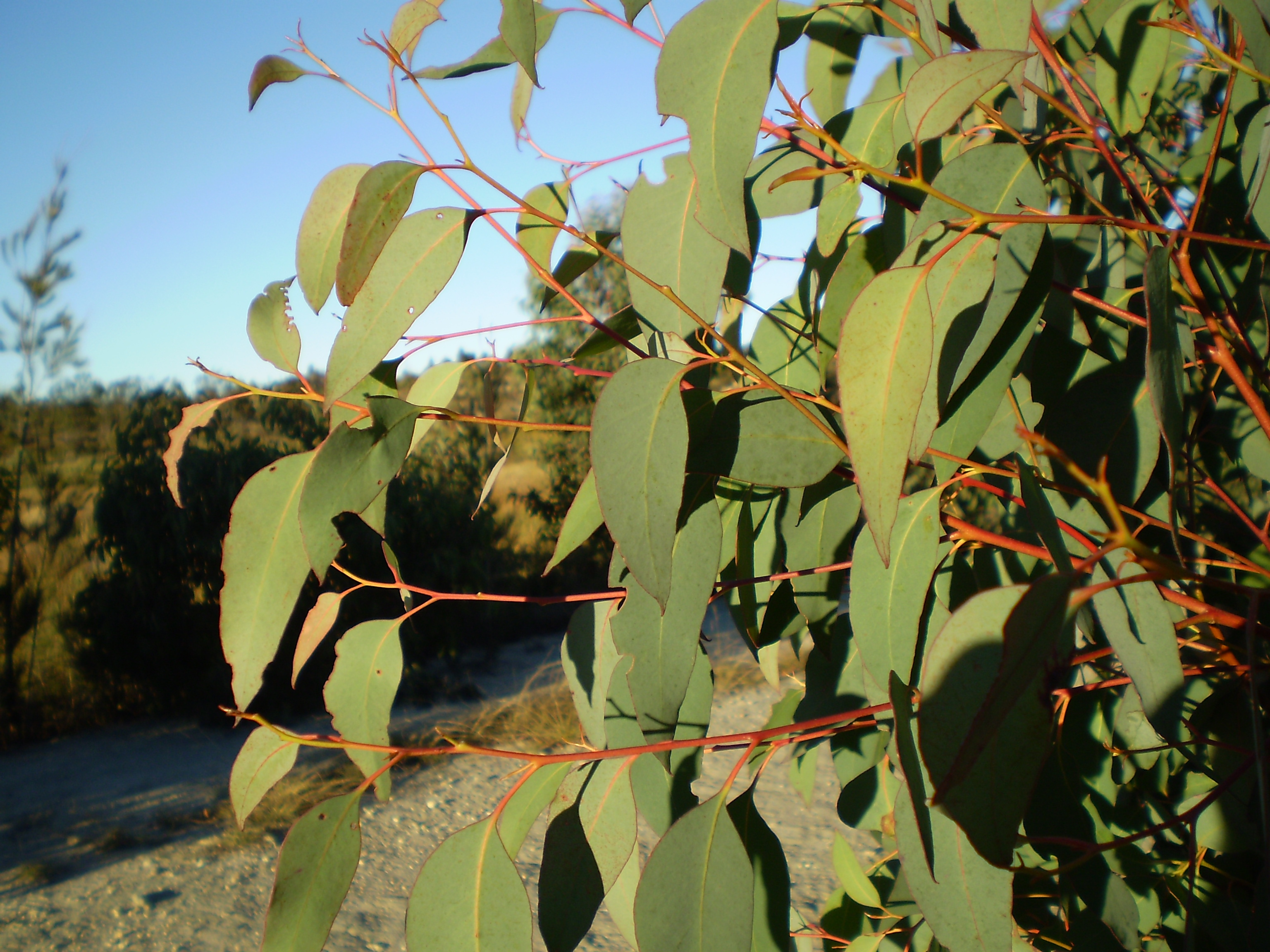 Eucalyptus olida, strawberry gum, juvenile foliage